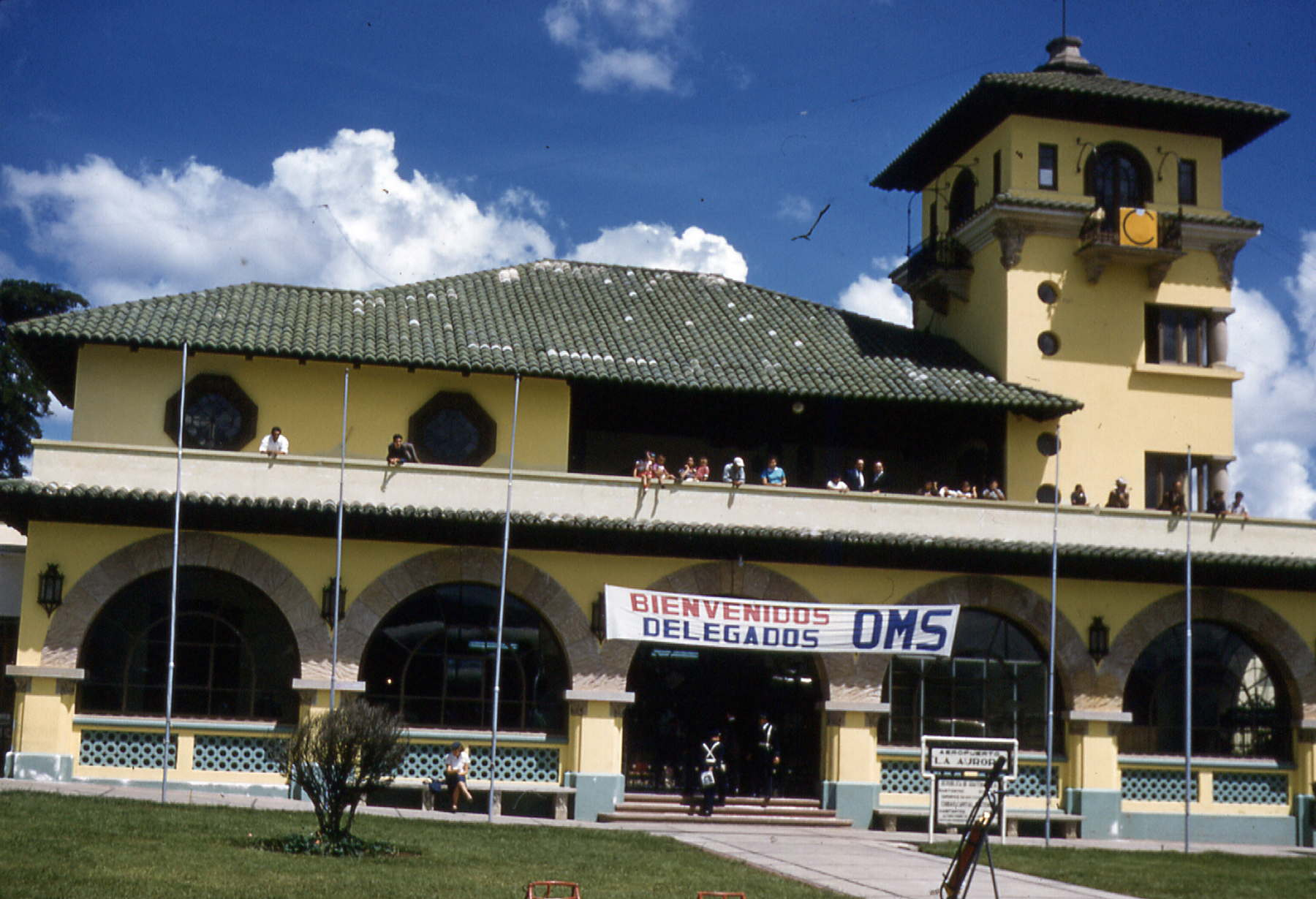 Guatemala airport building, 1956, before enlargement. Solid anti-earthquake construction.